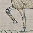 Backside of Bayeux tapestry, 62B